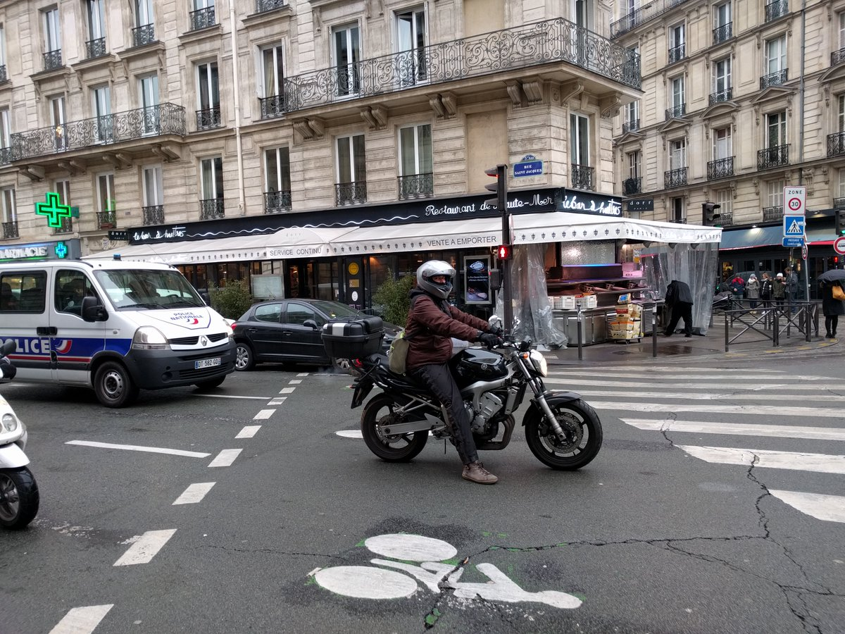 advanced stop line